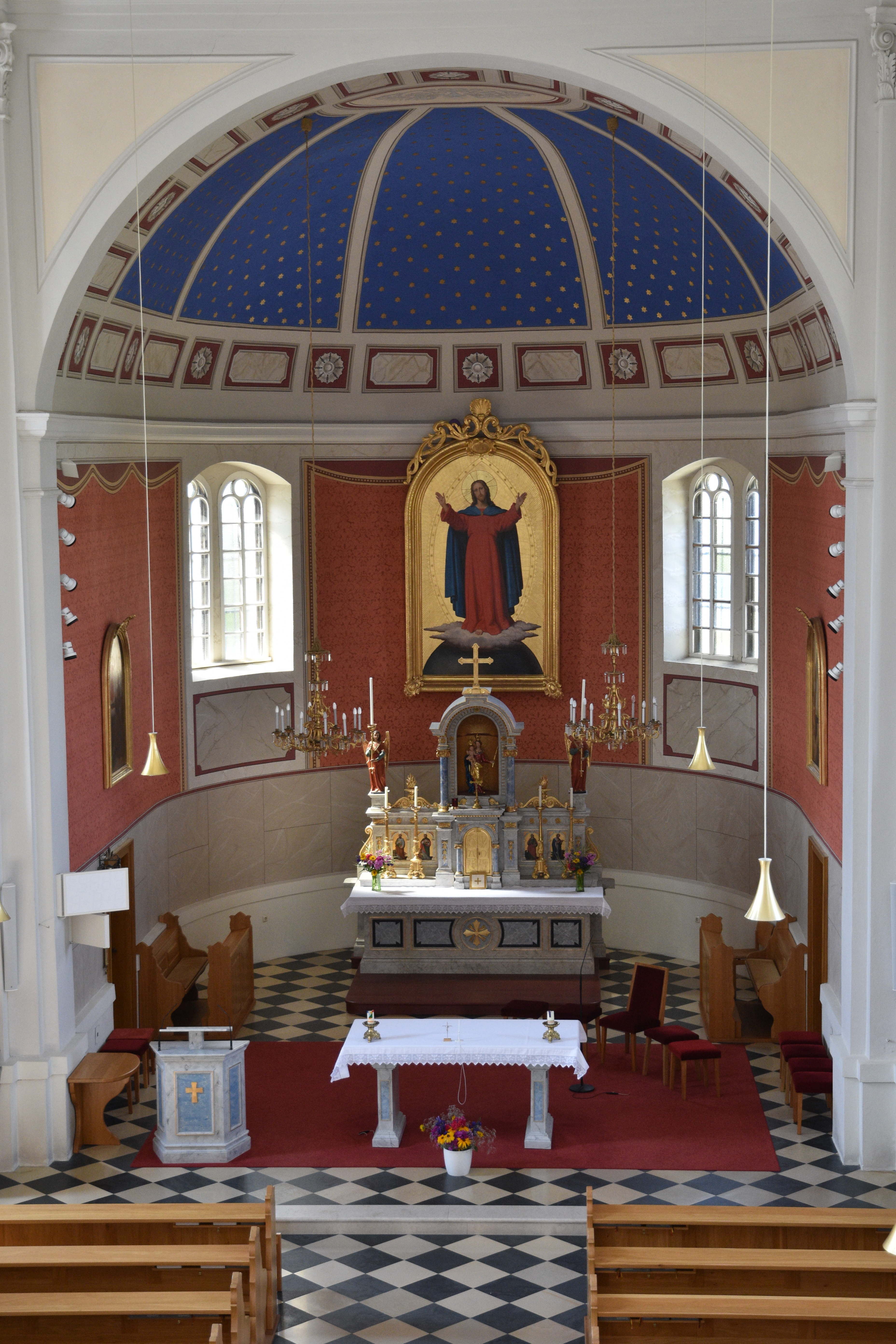 Church Wallfahrtskirche Maria Schnee (Kaltenberg) - Interior